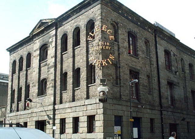 The Fleece & Firkin, St Thomas St On the corner of Thomas Lane, this 1830 building was originally Bristol's Wool Hall.